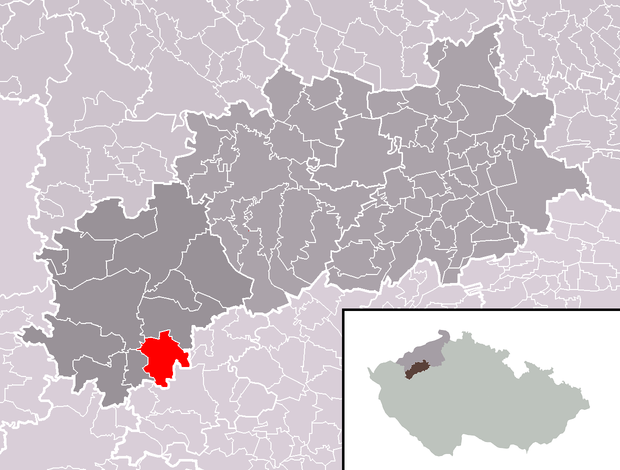 Location of Petrohrad municipality within Louny District and administrative area of Žatec as a Municipality with Extended Competence.